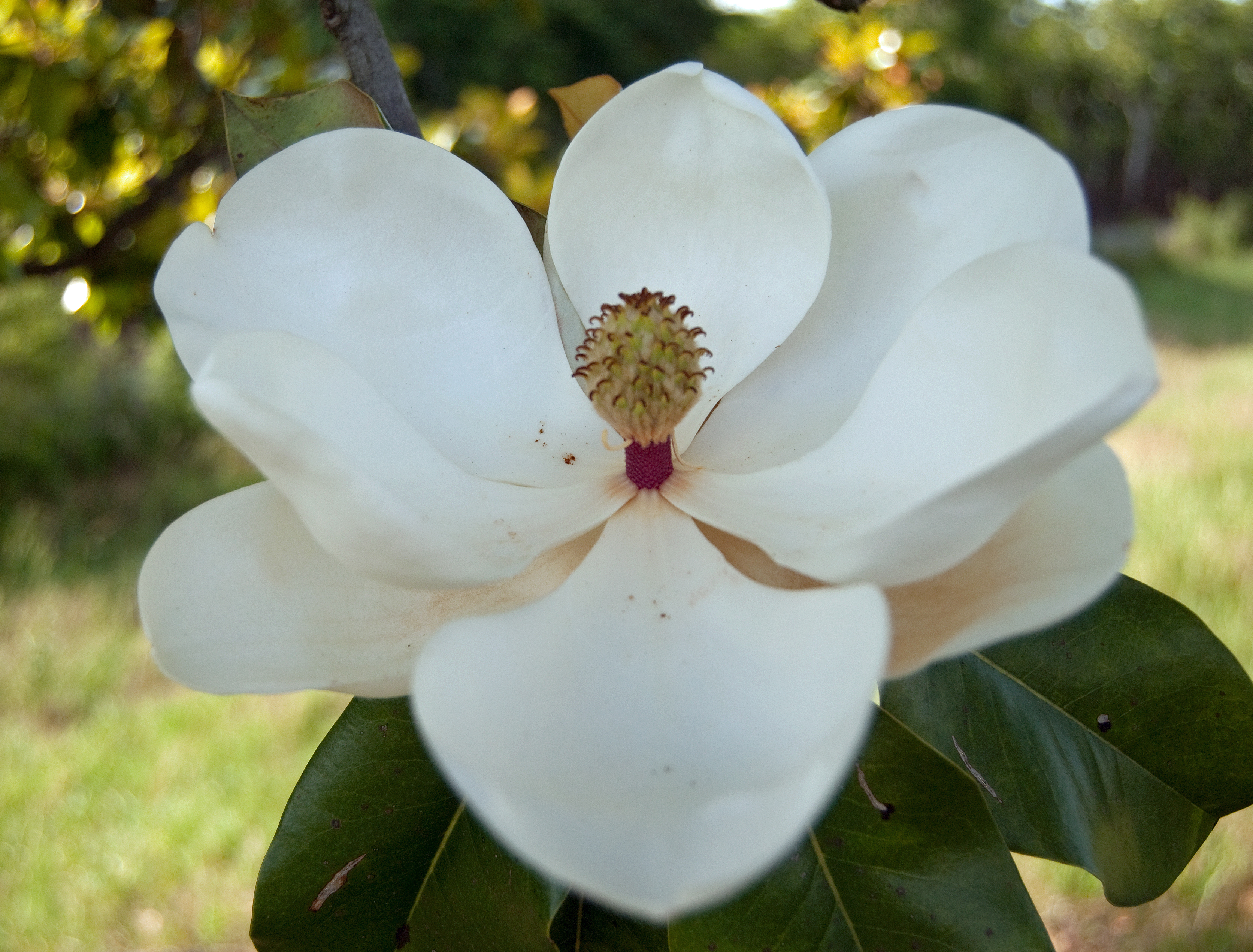 Magnolia the state flower of Mississippi..